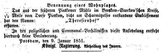 Detail about the naming of the Theresienhof from page 37 of: „Amtsblatt der Königlichen Regierung zu Potsdam und der Stadt Berlin. Jahrgang 1851. Potsdam, 1851.“ The Theresienhof is today a part (settlement, estate; german: Wohnplatz) of Bad Saarow, District Oder-Spree, Brandenburg, Germany.